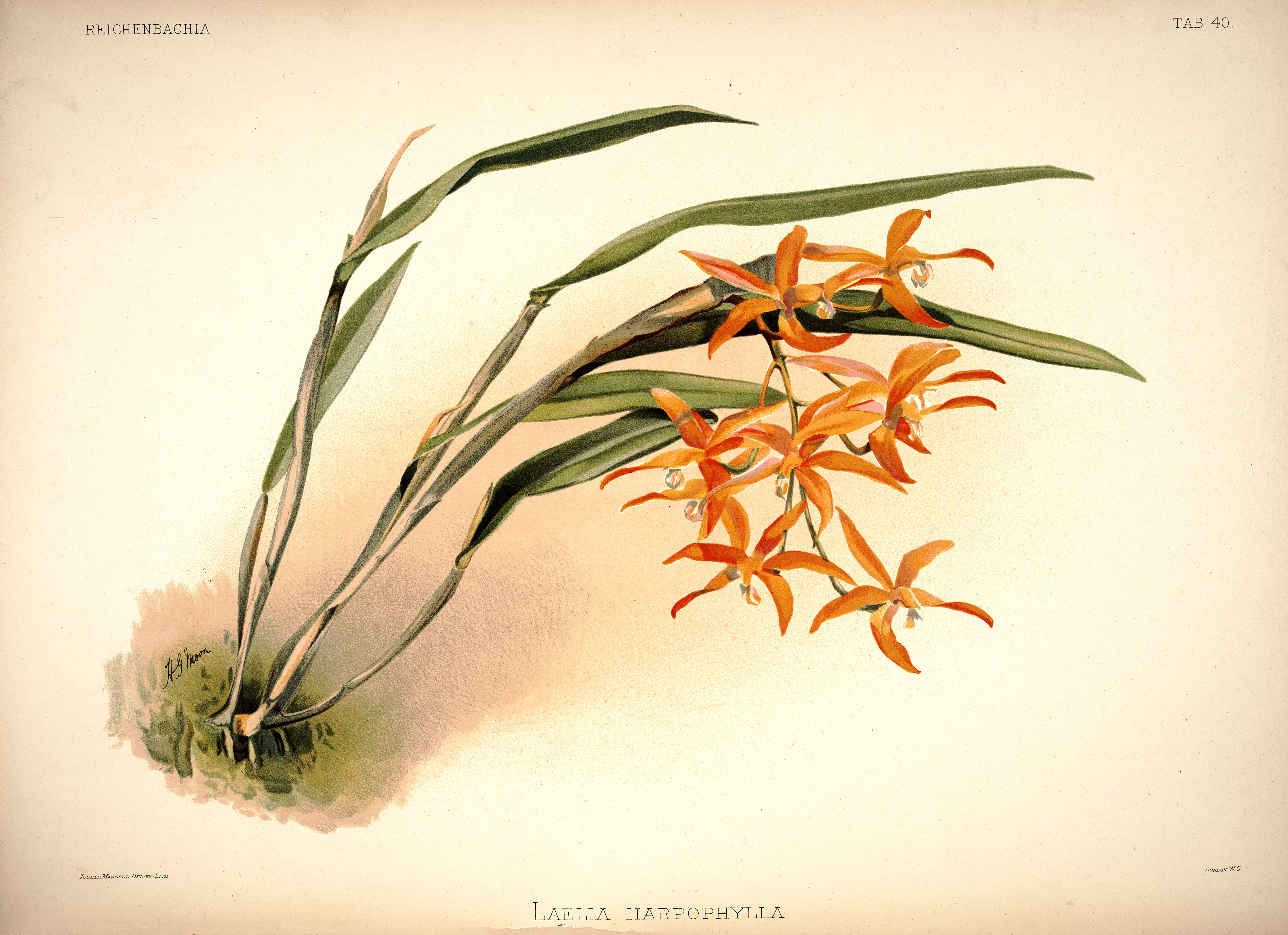 Cattleya harpophylla